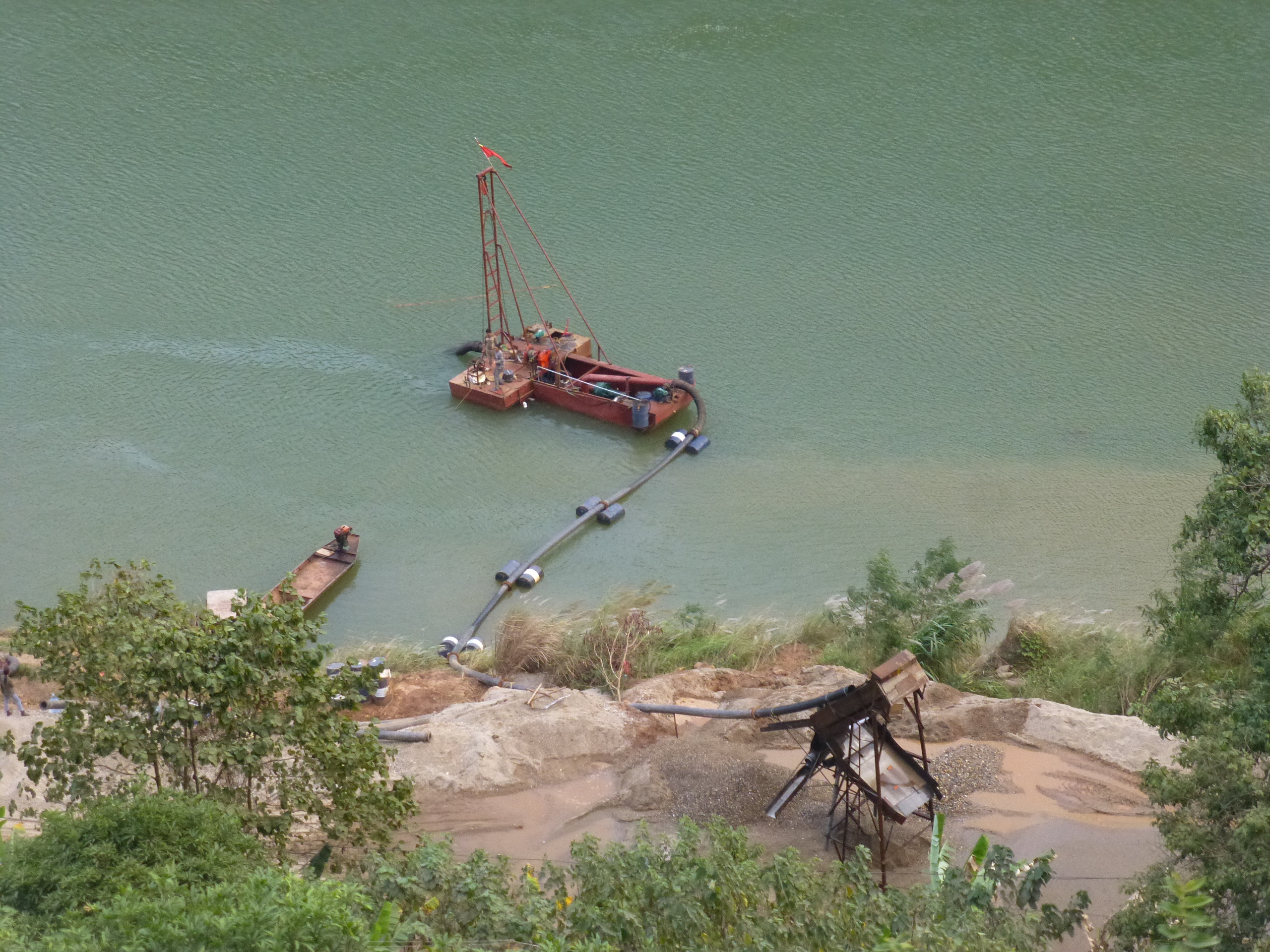 The valley of the Red River upstream of Manhao Town. Seen from Hwy S212 between the high Manhao Bridge and Manhao Town. This side of the reservoir is in Manhao Town, Gejiu City; the opposite side, in Jinping County